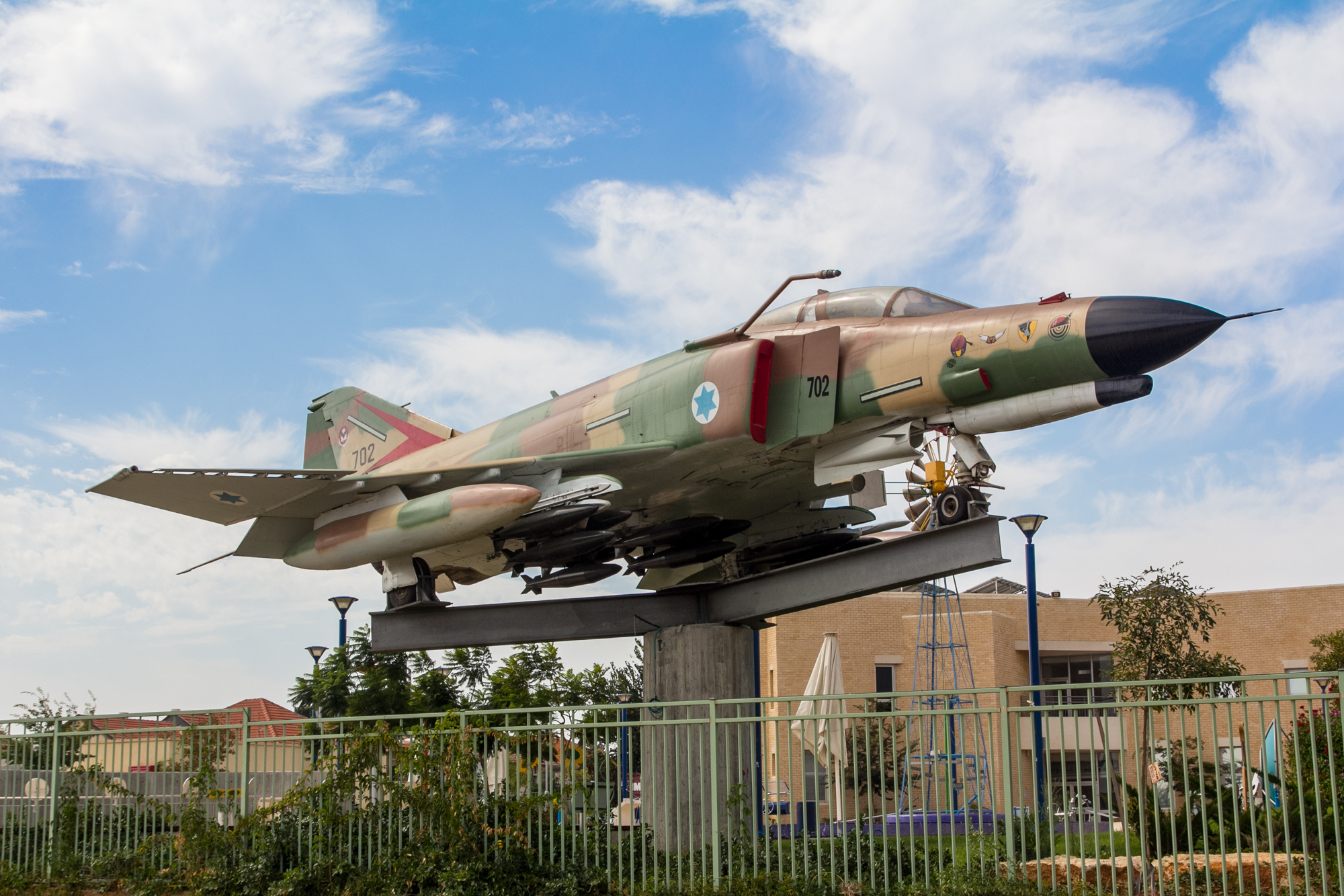 Israeli Air Force 119 "Bat" Squadron F-4E Phantom II at the Givat Olga Technoda